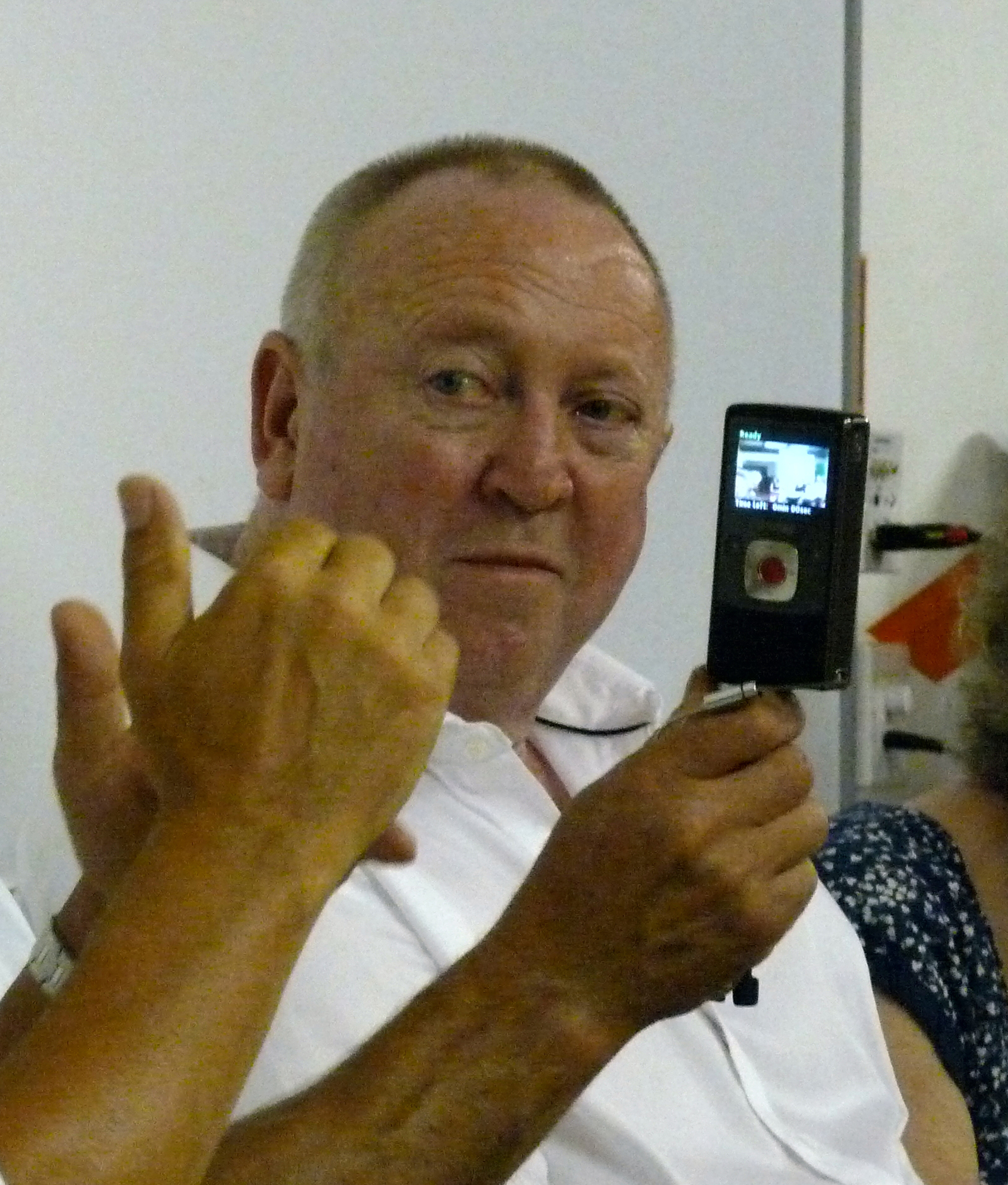 Keith Taylor, Green MEP for south-east England speaking at Drill Baby Drill on 17 July 2013. Cropped from original.